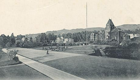 Picture of 1898 UC (now UC Berkeley) and the picturesque style of the designer Frederick Law Olmsted. Copyright, if any asserted originally, expired.